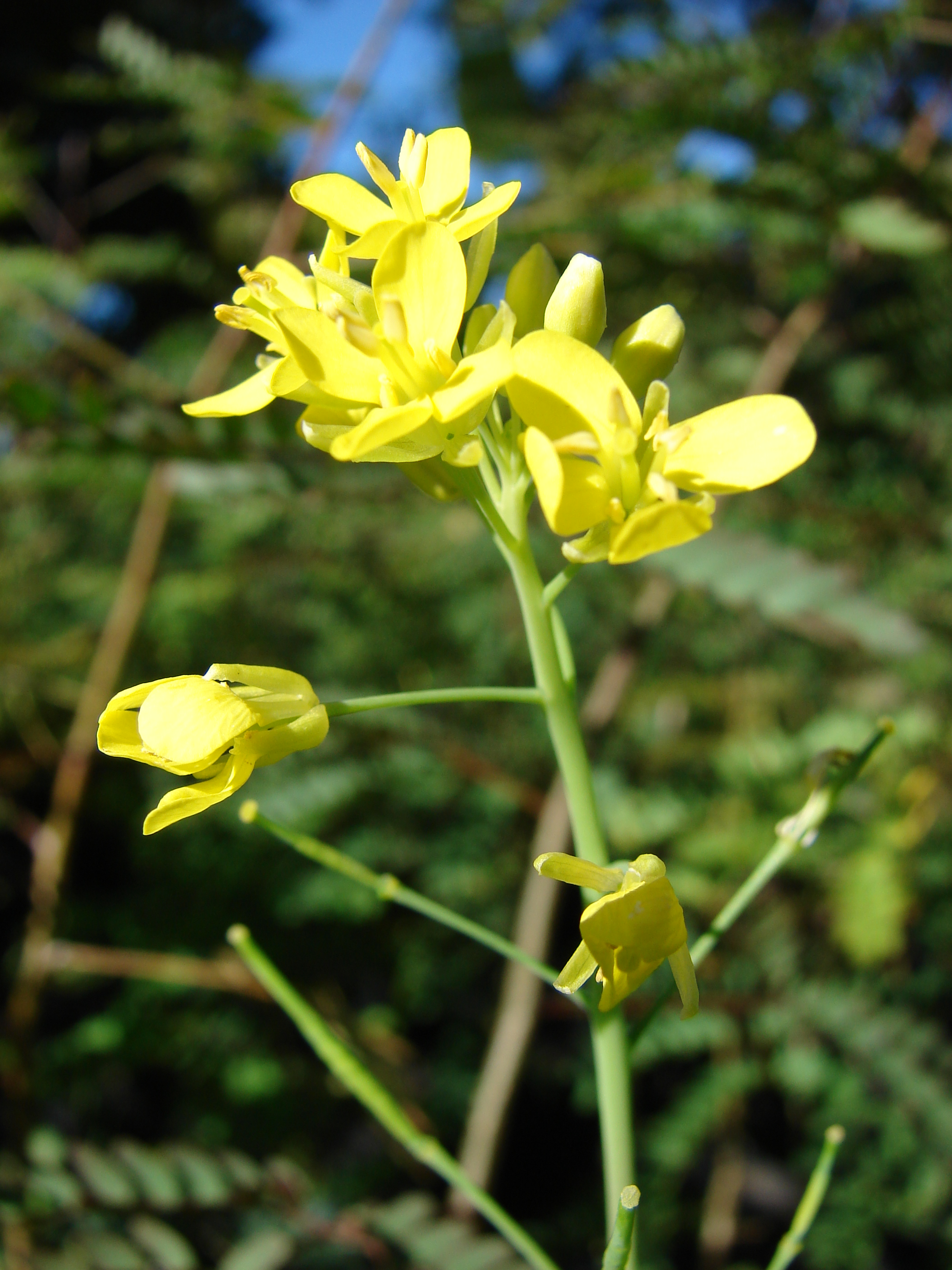 Brassica campestris var. chinensis (flowers). Location: Maui, Makawao